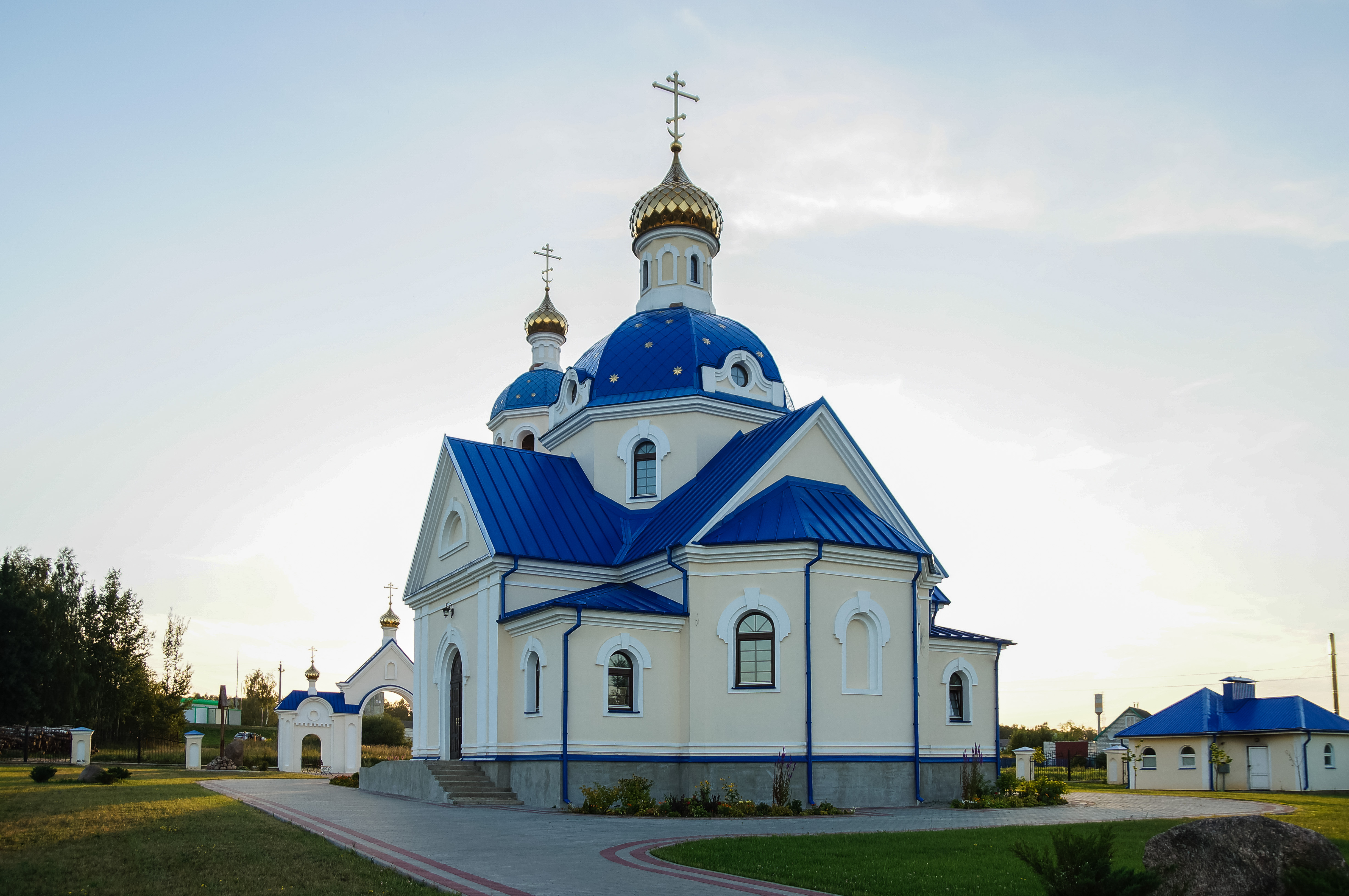 Church of the Intercession of the Holy Virgin (Vileyka) 08